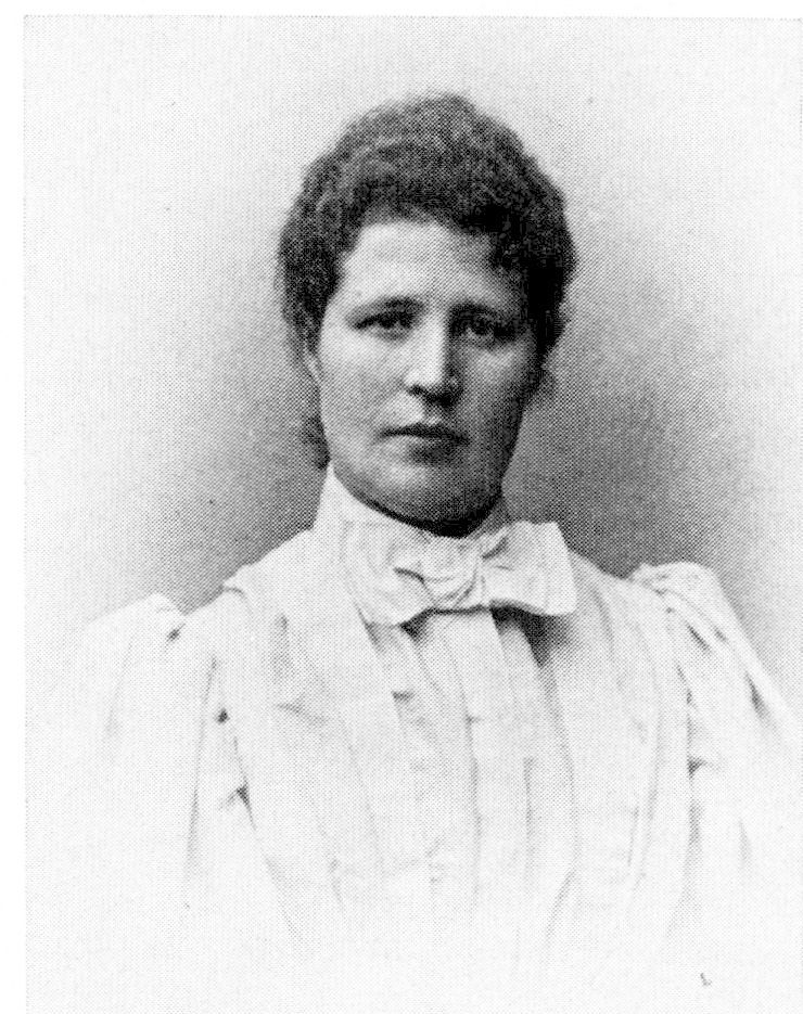 Swedish gymnast and teacher Sally Högström (1863-1939)